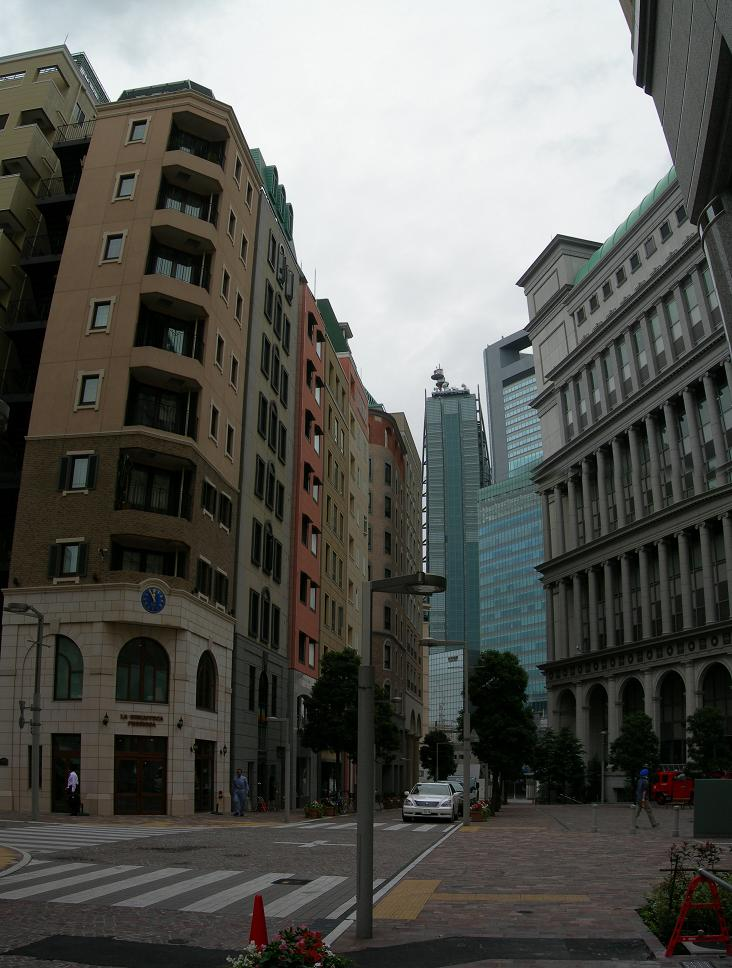 I, Ricky G. Willems took this photo. This is a vertical panoramic photo taken by me on the 6th of July, 2006.